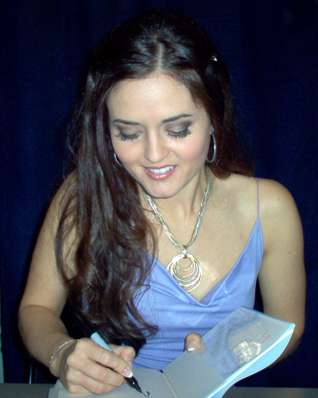 Danica McKellar at a book signing